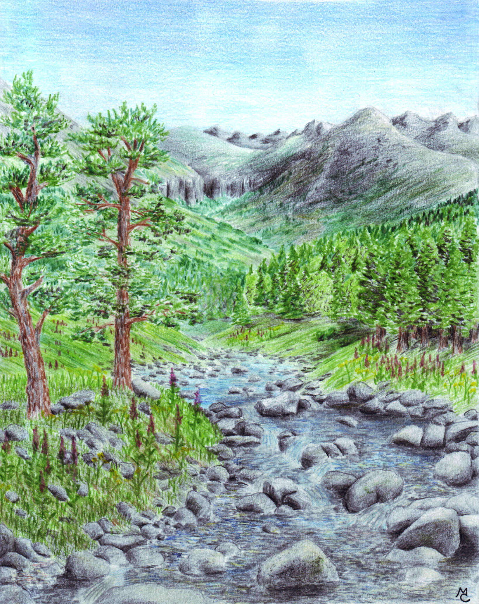 Duilwen, one of the rivers of Ossiriand